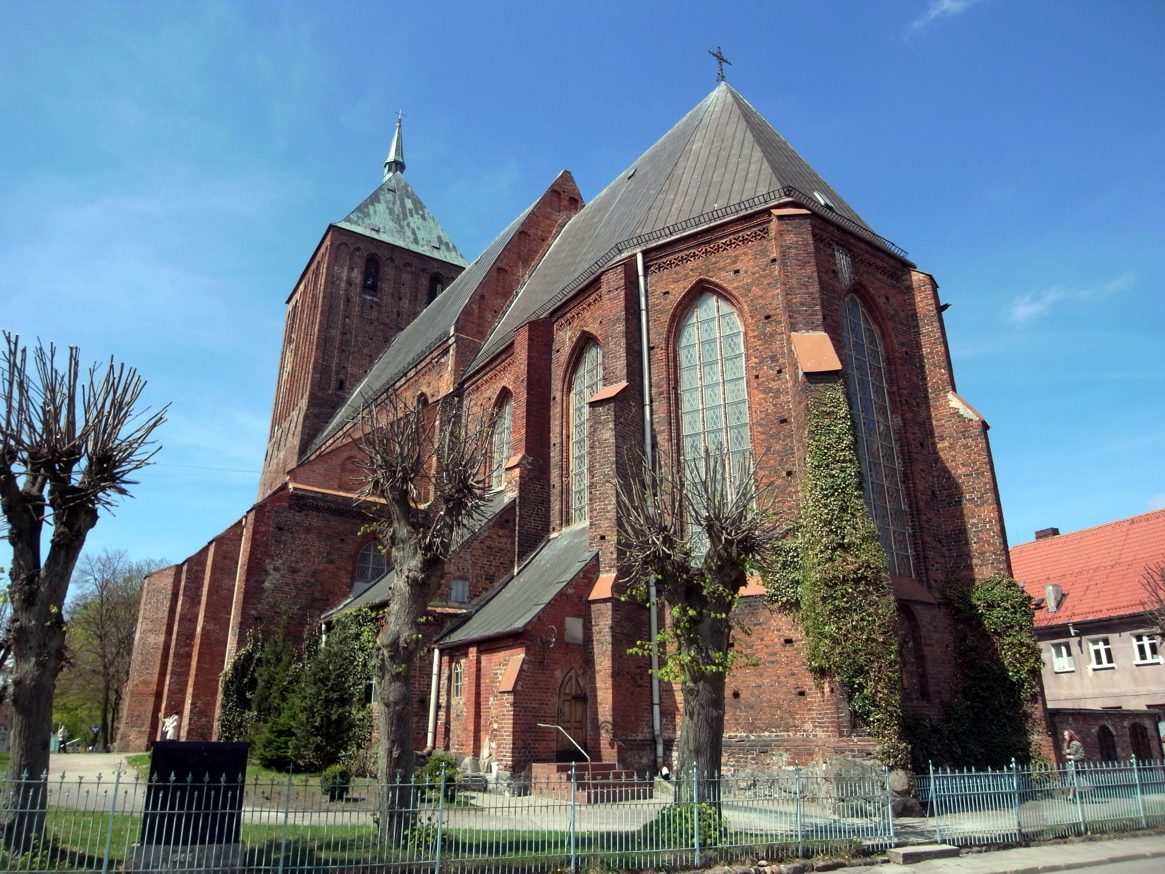 Sławno. Church of the Assumption of the Blessed Virgin Mary, 14th century.